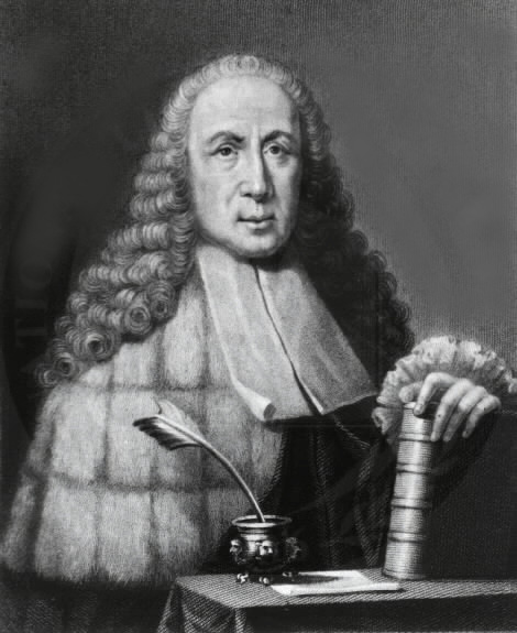 Portrait of Giovanni Battista Morgagni, from De sedibus et causis morborum per anatomen indagatis (1761).